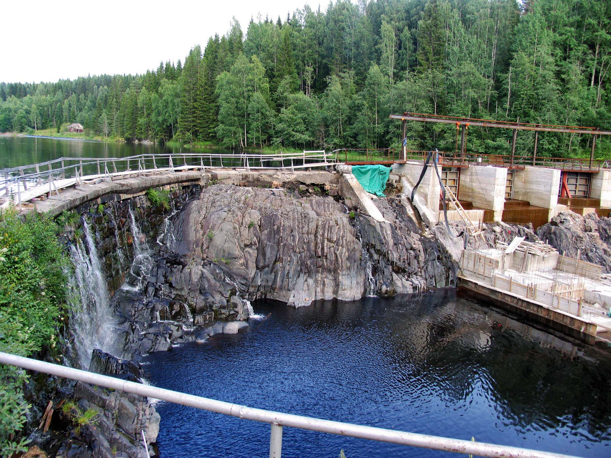 Hamekoski damn in Harlu, Karelia